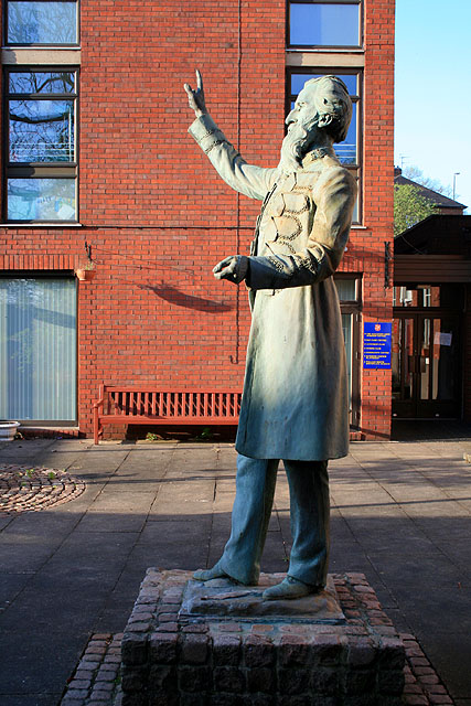 Statue of William Booth Outside his birthplace in Notintone Place. Sneinton. Now a Salvation Army Centre and Museum.